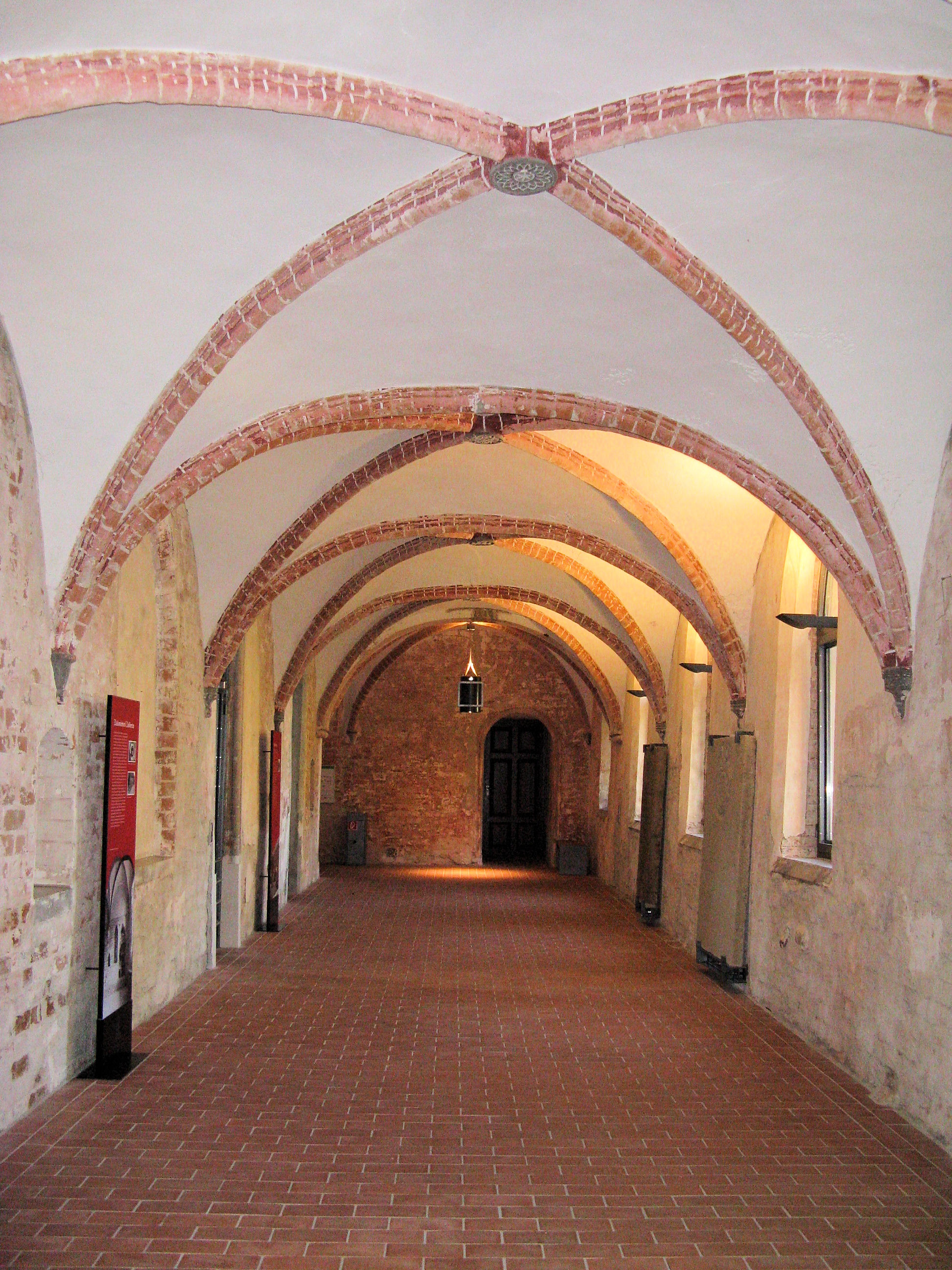 North cloister in the enclosed religious orders building in the Monastery Dobbertin, disctrict Parchim, Mecklenburg-Vorpommern, Germany